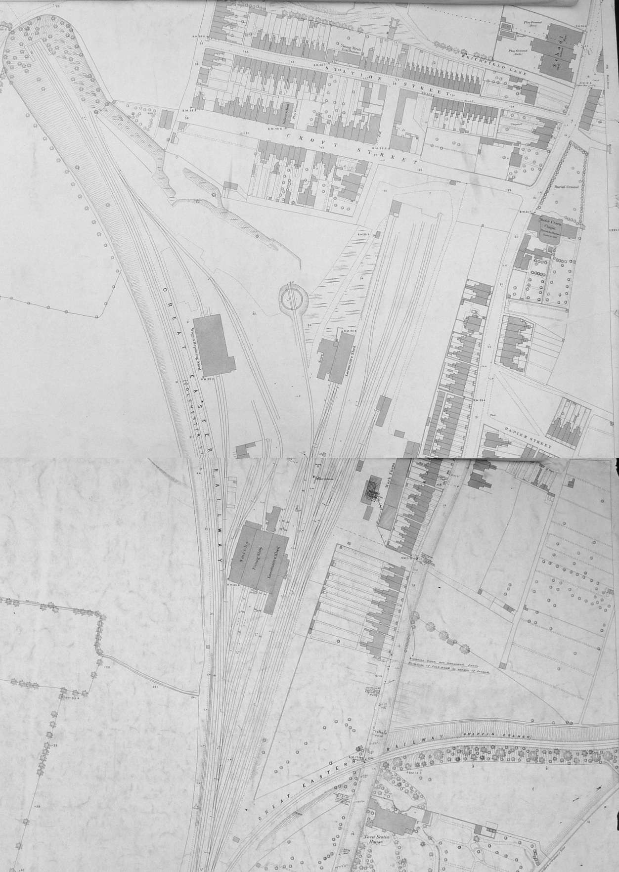 1883 map showing the location of the Ipswich engine shed